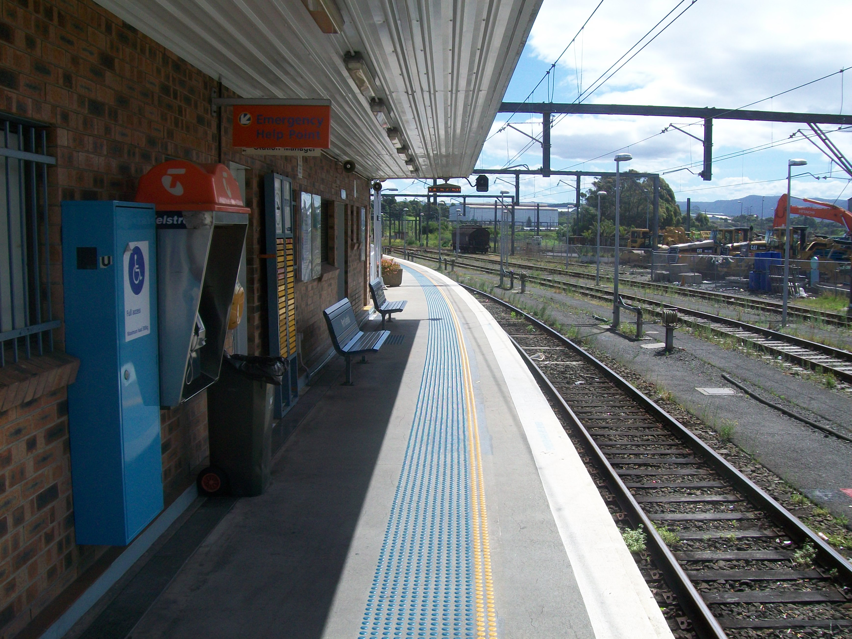 Port Kembla station platform building